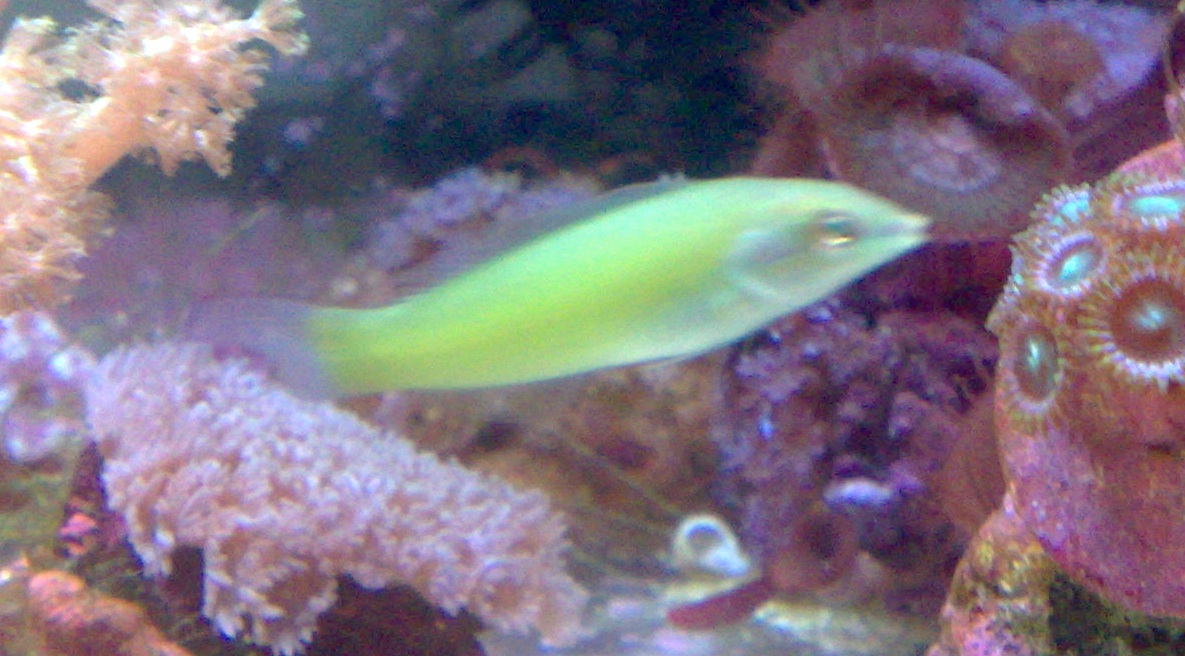 Juvenile Green Pastel Wrasse